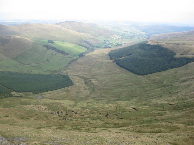 Cwm Maen Gwynedd from Cadair Berwyn